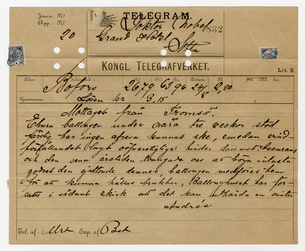 Telegram from S.A. Andrée to Alfred Nobel regarding Andrée's plans to go to the North Pole in a balloon. Nobel donated a large sum of money to the disastrous expedition.